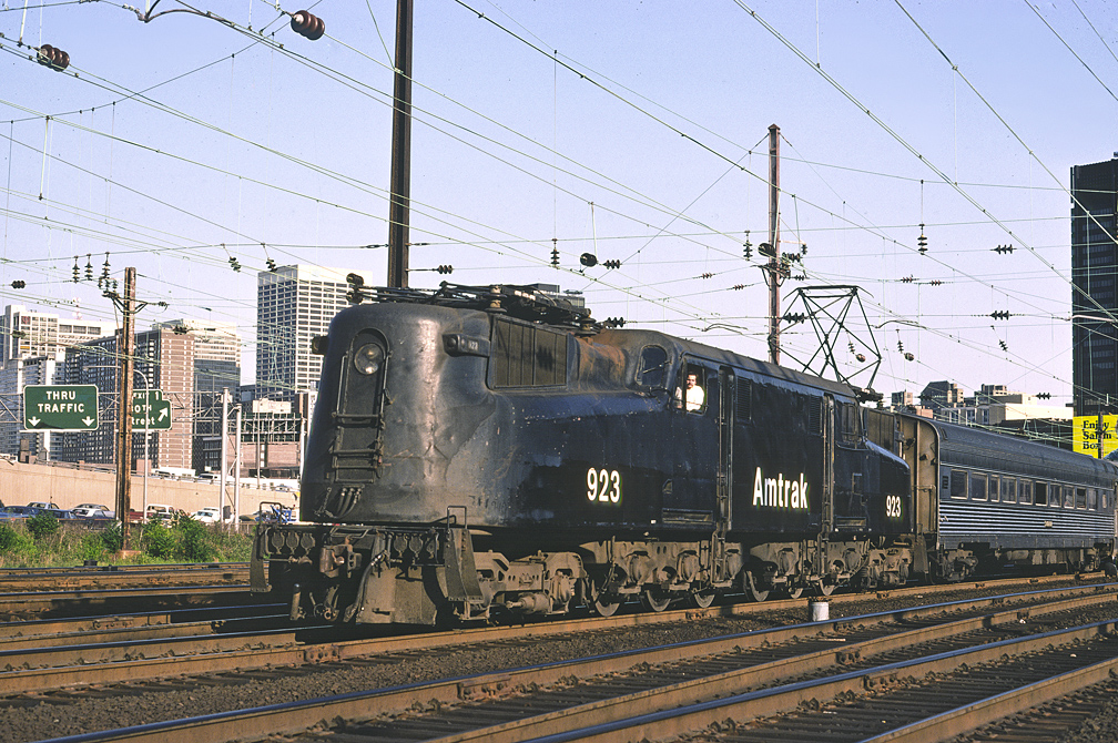 Amtrak GG1 #923 has just pulled out of 30th St. Station in Philadelphia in May of 1976 heading to New York with a Clocker train.